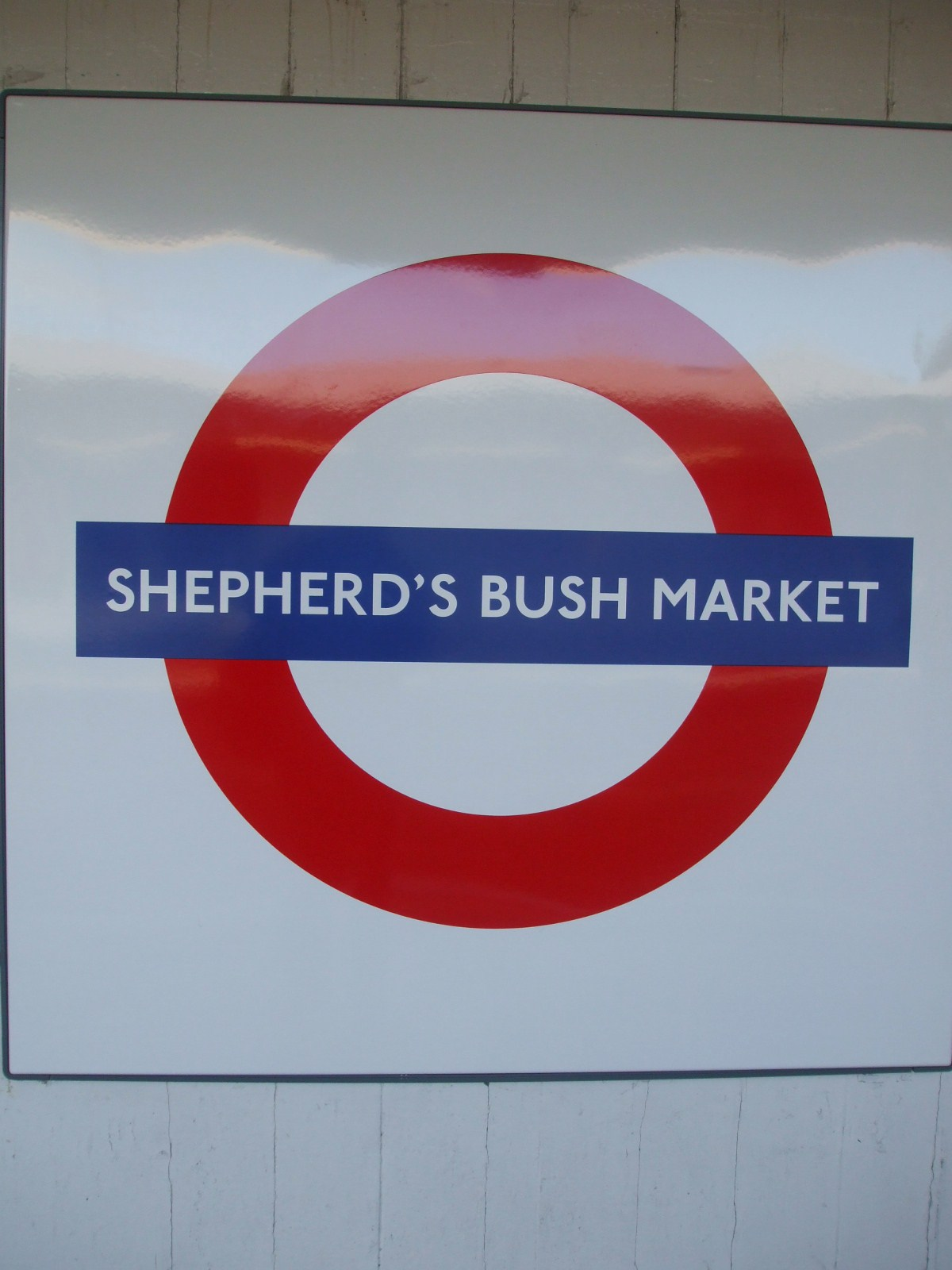 Shepherd's Bush Market tube station platform roundel. The sign had been modified such that a blue panel covered the "Market".